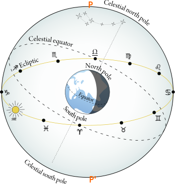 Sign cusps on the ecliptic. Modified from an original work by Joshua Cesa.